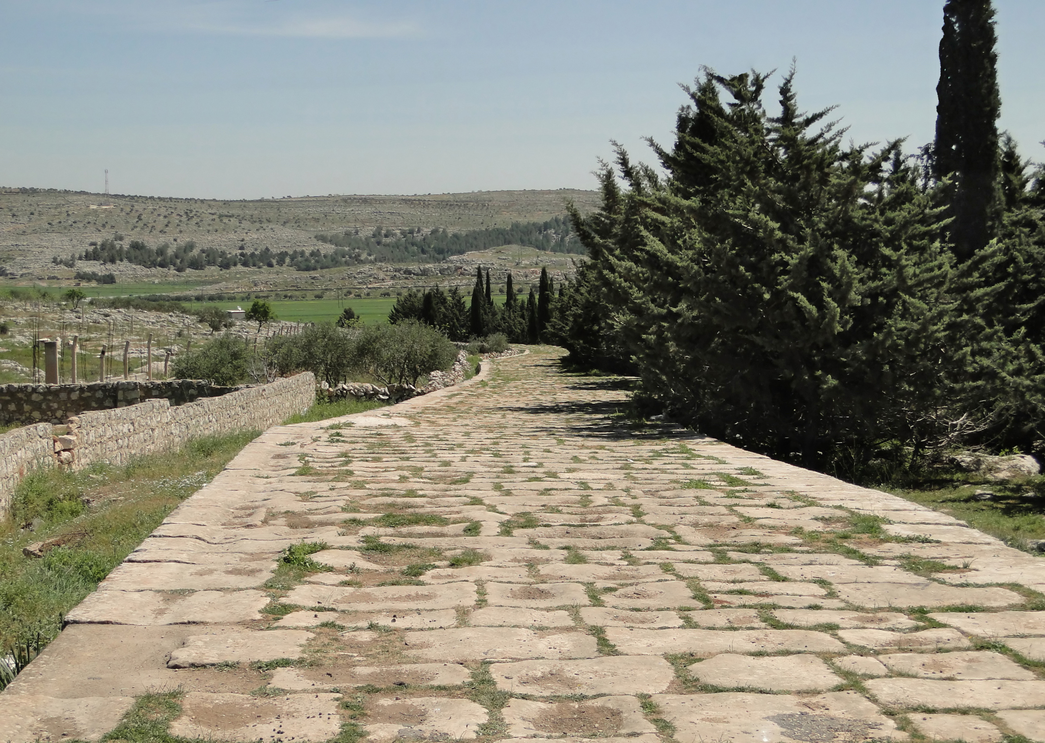 Ancient Roman road near Tall Aqibrin in Syria. This road connected Antioch and Chalcis.